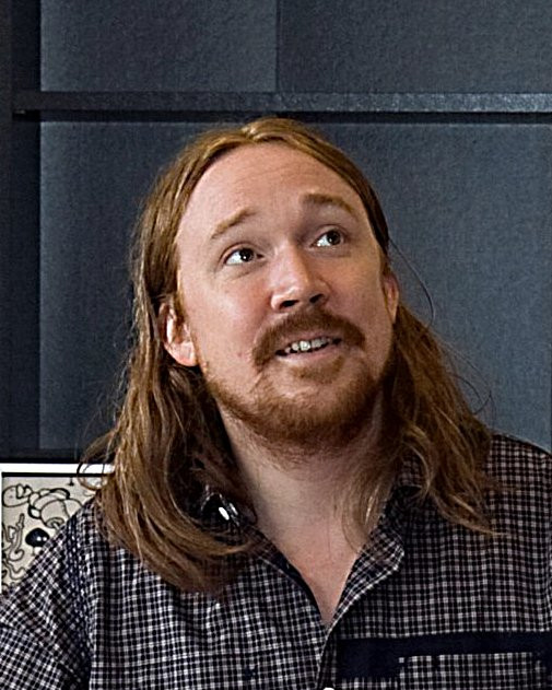 Lars Winnerbäck signing his book.